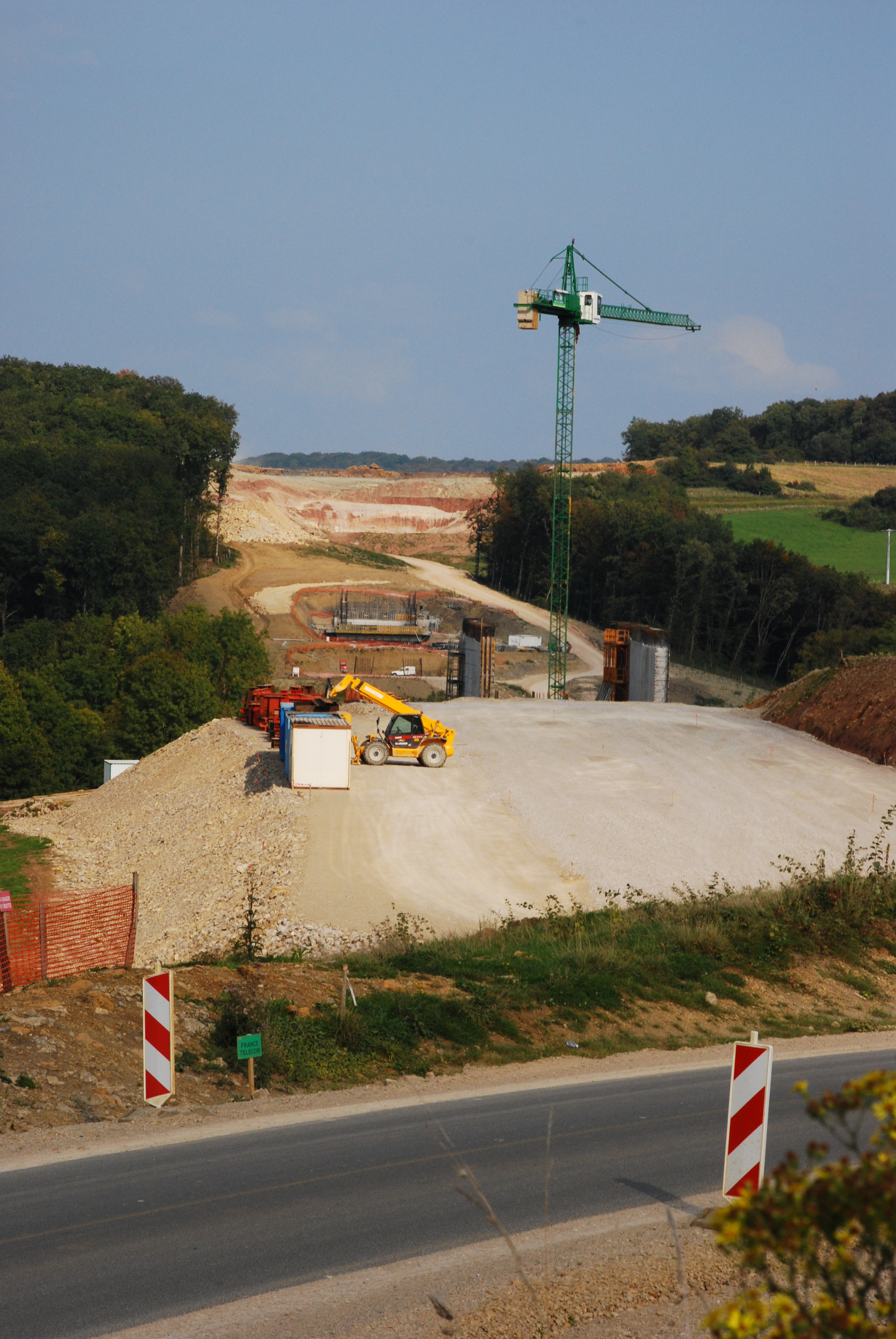 LGV Rhin-Rhône between Crevans and Corcelles on the D93.